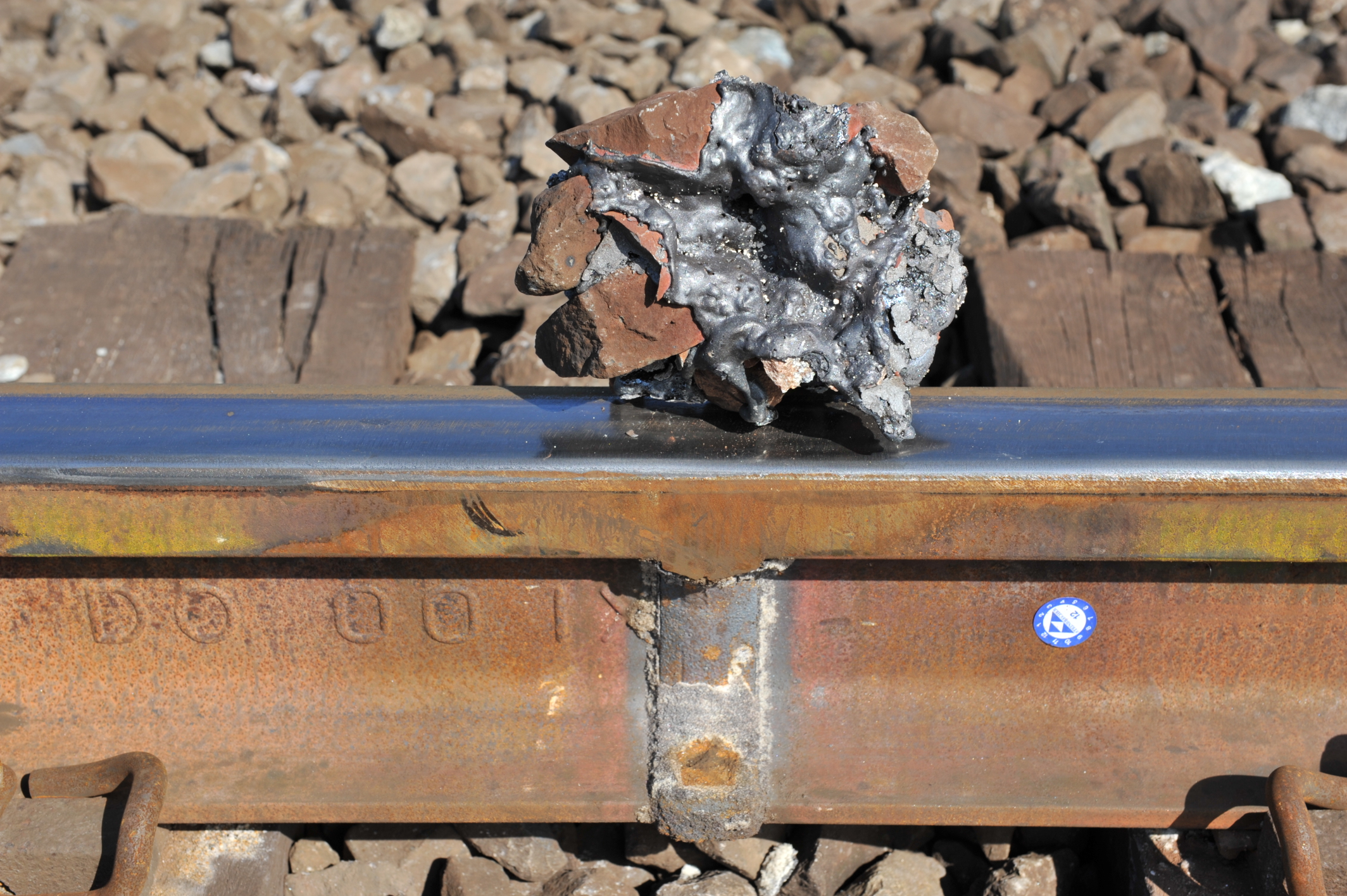 Cinder from thermite welding